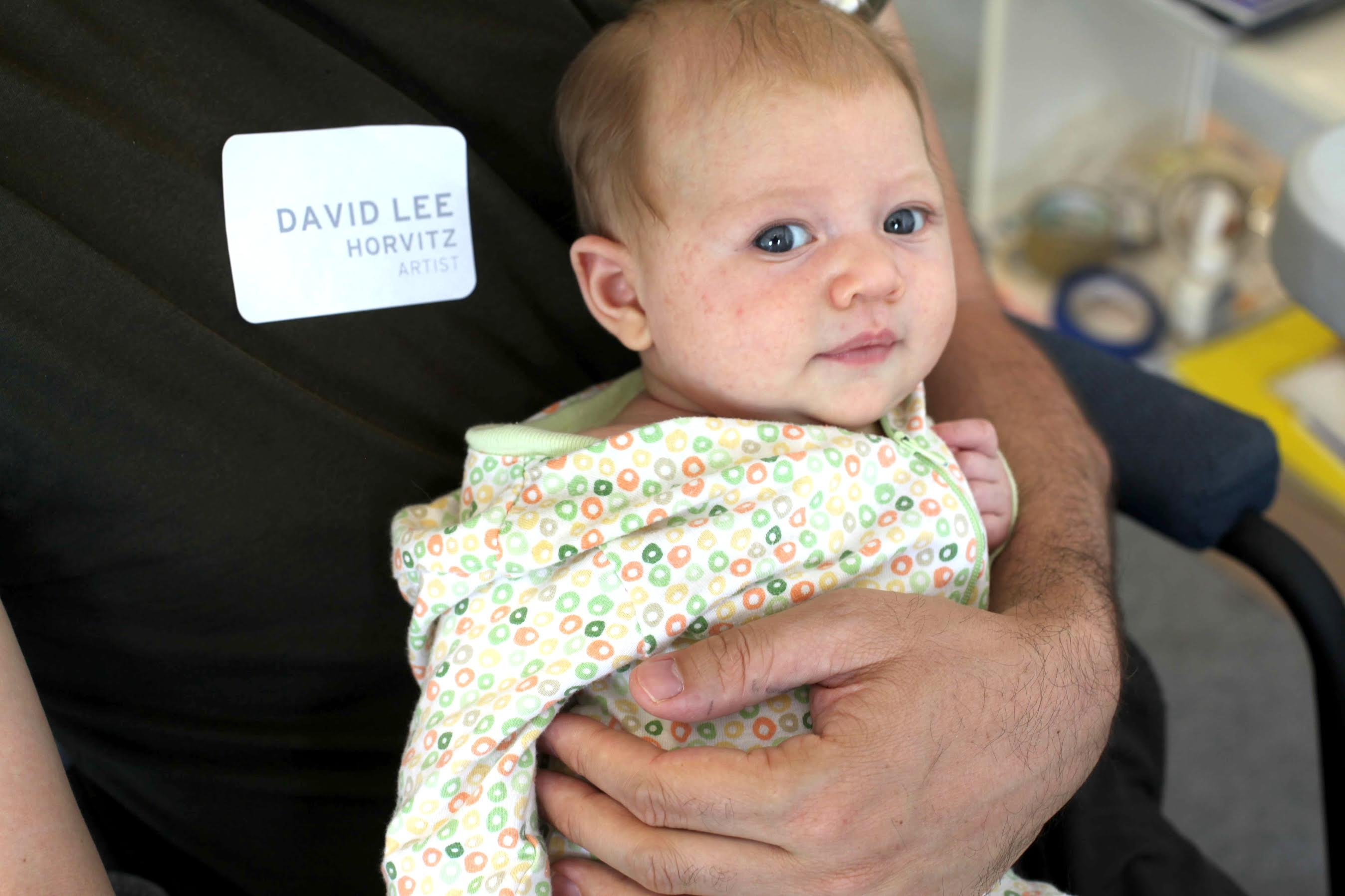 A seven-week old human baby with concentrating eyes.